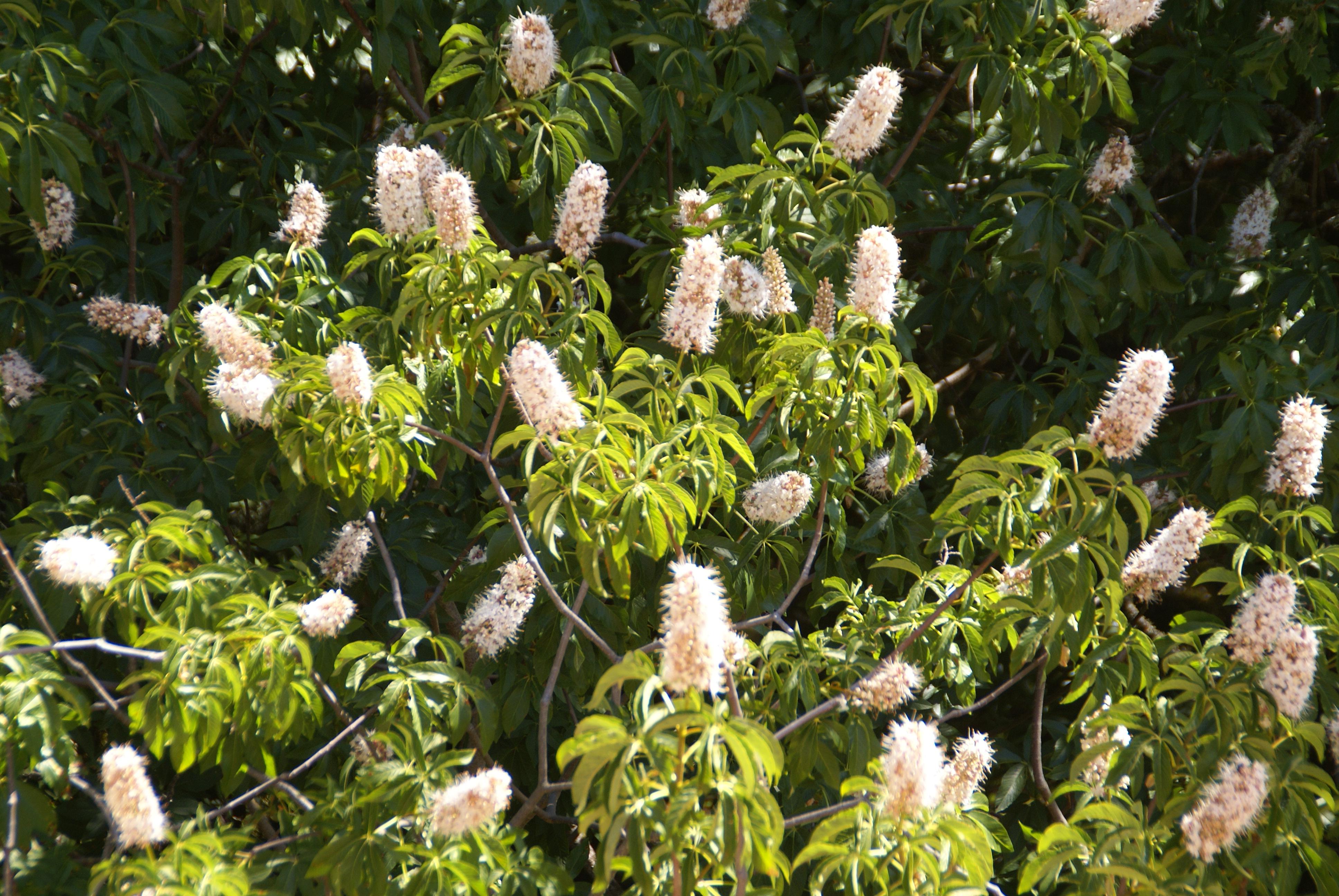 Aesculus californica foliage and flowers. Los Trancos Woods, Santa Cruz Mountains, California.